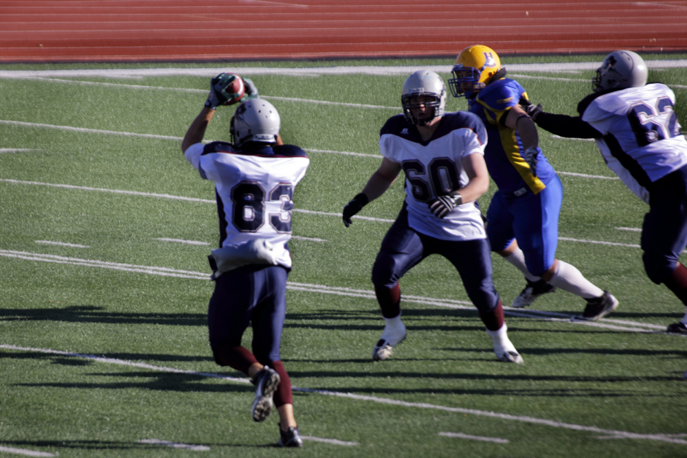 Sunday October 21, 2012 12:00 p.m. Junior Football game in the Prairie Football Conference (PFC). Canadian Junior Football League teams included Regina and Saskatoon. Saskatoon Hilltops were the home team at Griffiths Stadium in Potash Corp Park located on the grounds of the University of Saskatchewan home to the Saskatoon Huskies football team. . The game concluded at Saskatoon Hilltops 37 - 0 Regina Thunder. The Hilltops are the PFC champions acquiring their 15th championship trophy at the 36th PFC Championship game. The champion of the PFC final will receive the hosting rights for the Jostens Cup. The Jostens Cup is played between the Ontario Football Conference OC Champion and PFC Champion Teams with the PFC hosting the 2012 Josten's Cup game. The Jostens Cup winner goes on to play the British Columbia Football Conference Champion for the Canadian Bowl Championship Saturday November 10, 2012 at 1:00 pm with the BCFC hosting the game. THIS PLAY Regina Thunder receiver 83 Clay Cooke is seen here receiving the catch in the last moments of the fourth quarter. He was taken down by Hilltop 35, Benjamin Cressman defensive player of the year. Hilltops dominate in PFC final Hilltops crowned PFC Champions Toppers thump Regina 37-0 Saskatoon Hilltops PFC champions once again Hilltops steamroll Thunder in PFC final CJFL: Hilltops win PFC final over provincial rivals Cressman named PFC's best on defence CJFL: Colts ride off as big winners at PFC Awards Saskatoon Hilltops award winners Cressman named PFC's best on defence